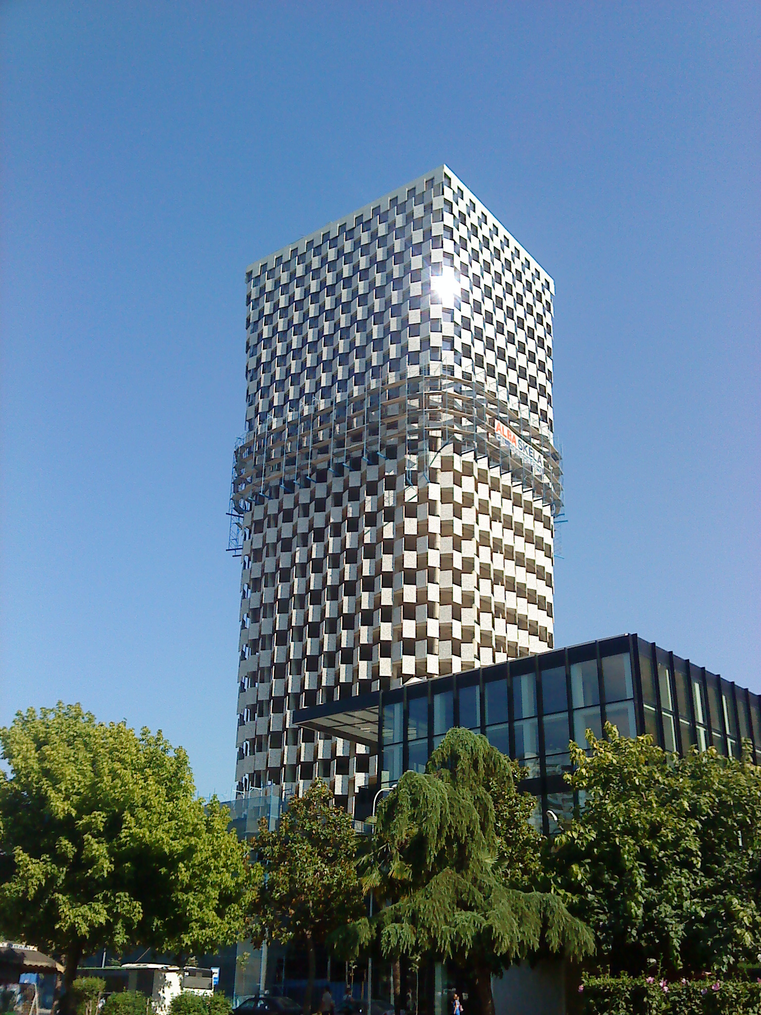 TID Tower in Tirana.